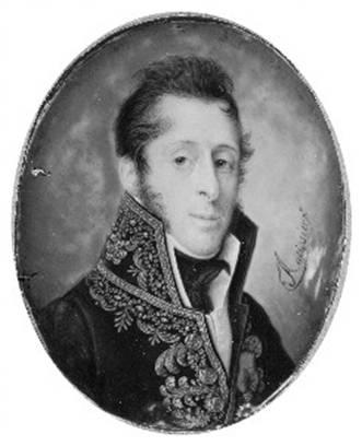 Reproduction of a painted medaillon with a portrait of Willem Frederik count of Bylandt